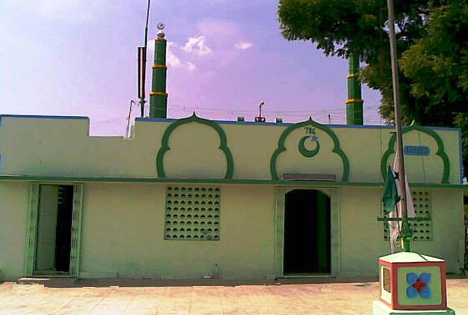 Front view of the Holy dargah of panch Shaheed paanch peer Waliullah, Manamadurai.